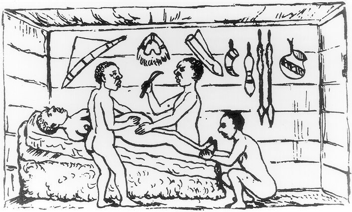 From ; caption states "Successful Cesarean section performed by indigenous healers in Kahura, Uganda, as observed by R. W. Felkin in 1879". Further detail from the source page: "While Barry applied Western surgical techniques, nineteenth-century travelers in Africa reported instances of indigenous people successfully carrying out the procedure with their own medical practices. In 1879, for example, one British traveller, R.W. Felkin, witnessed cesarean section performed by Ugandans. The healer used banana wine to semi-intoxicate the woman and to cleanse his hands and her abdomen prior to surgery. He used a midline incision and applied cautery to minimize hemorrhaging. He massaged the uterus to make it contract but did not suture it; the abdominal wound was pinned with iron needles and dressed with a paste prepared from roots. The patient recovered well, and Felkin concluded that this technique was well-developed and had clearly been employed for a long time. Similar reports come from Rwanda, where botanical preparations were also used to anesthetize the patient and promote wound healing."